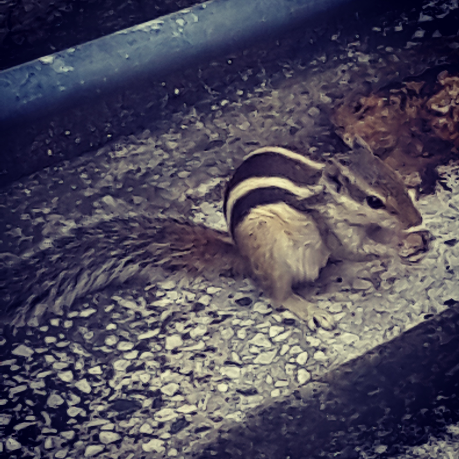 Squirrel.